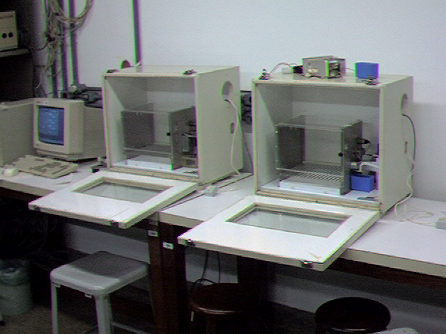 Old picture of a couple of Skinner boxes at Unb - Universidade of Brasilia, circa 2001.